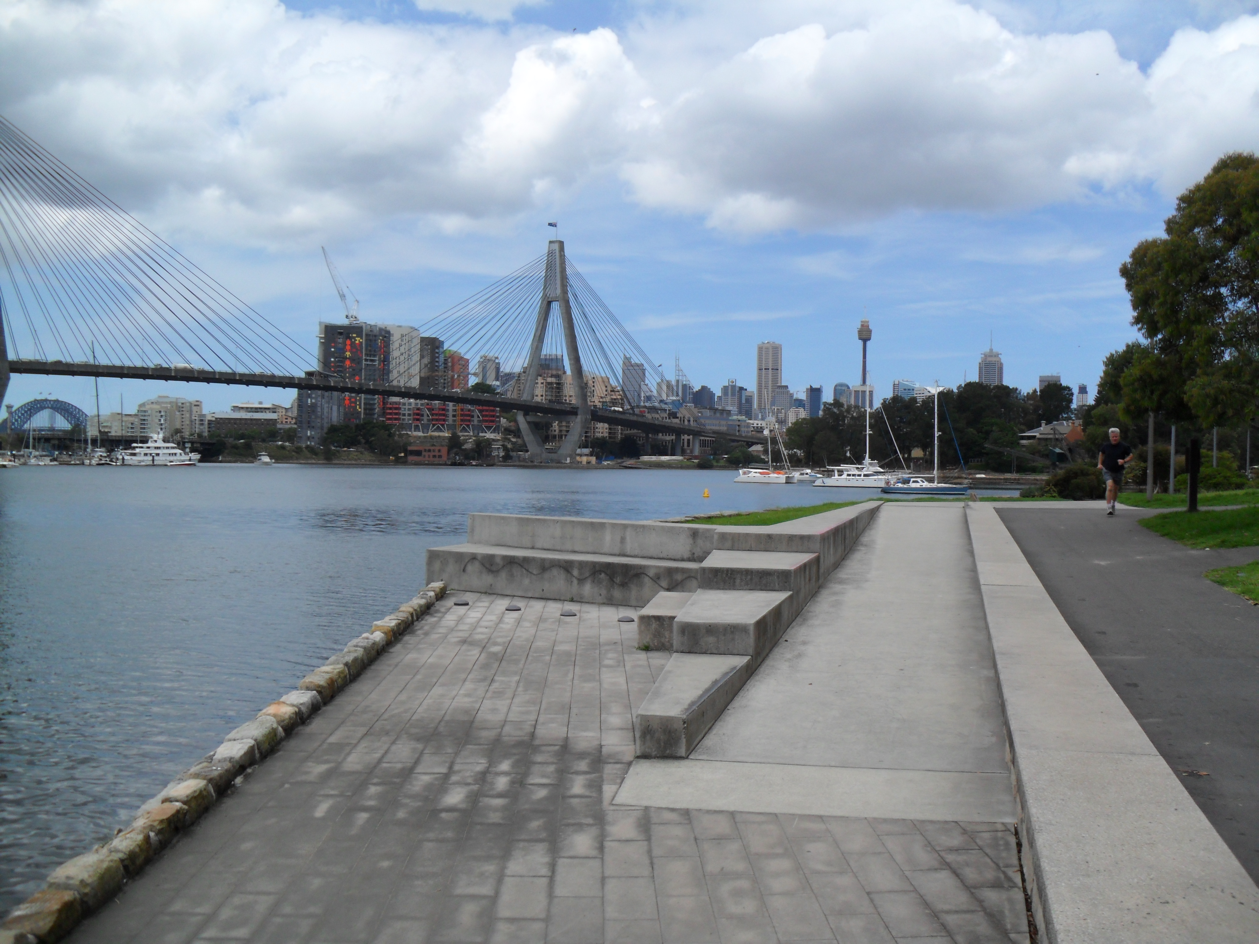 Glebe Point, Pope Paul VI Reserve.